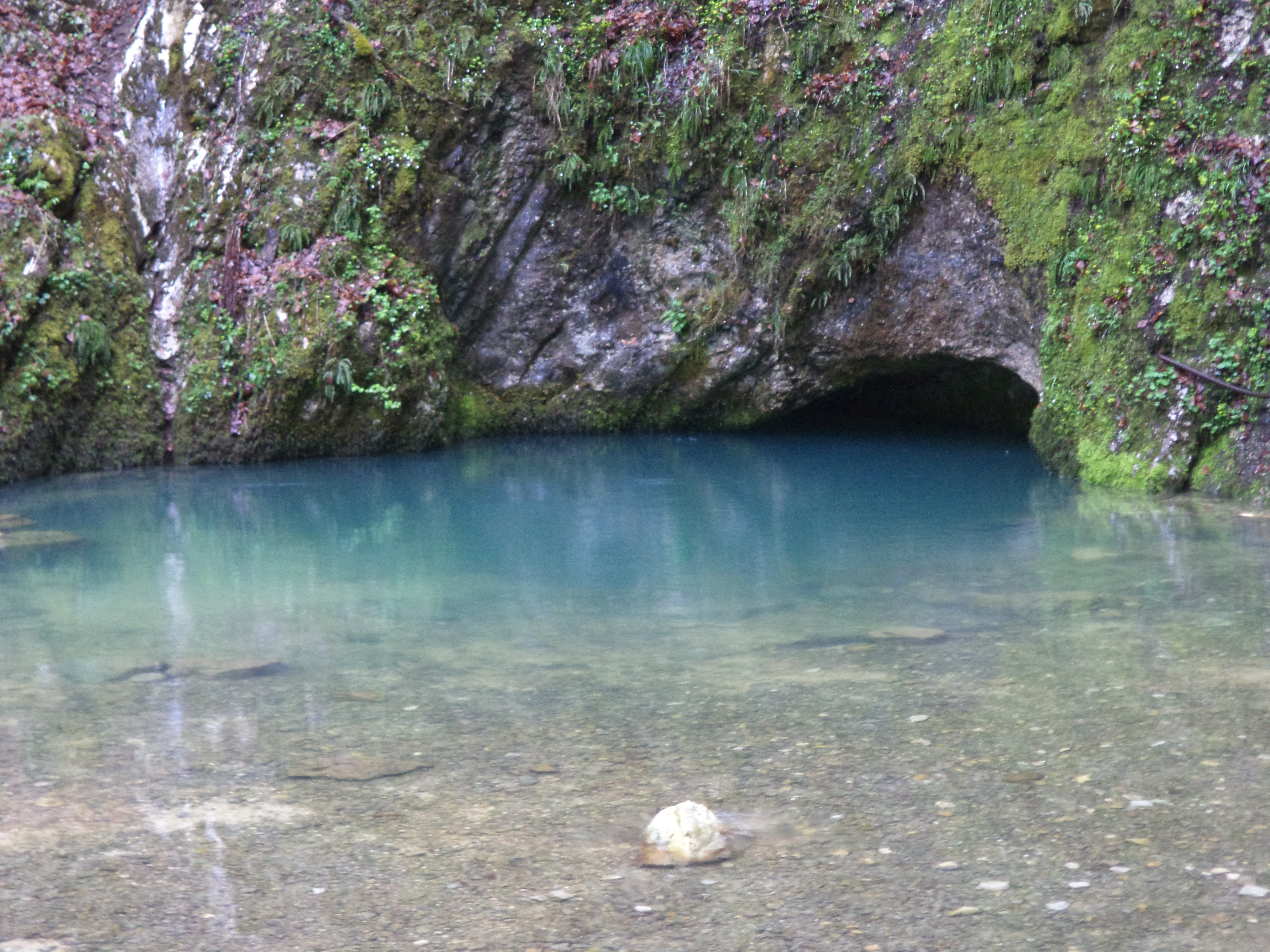 The karst spring "Source Bleue" (blue spring) near Malbuisson in the French Jura